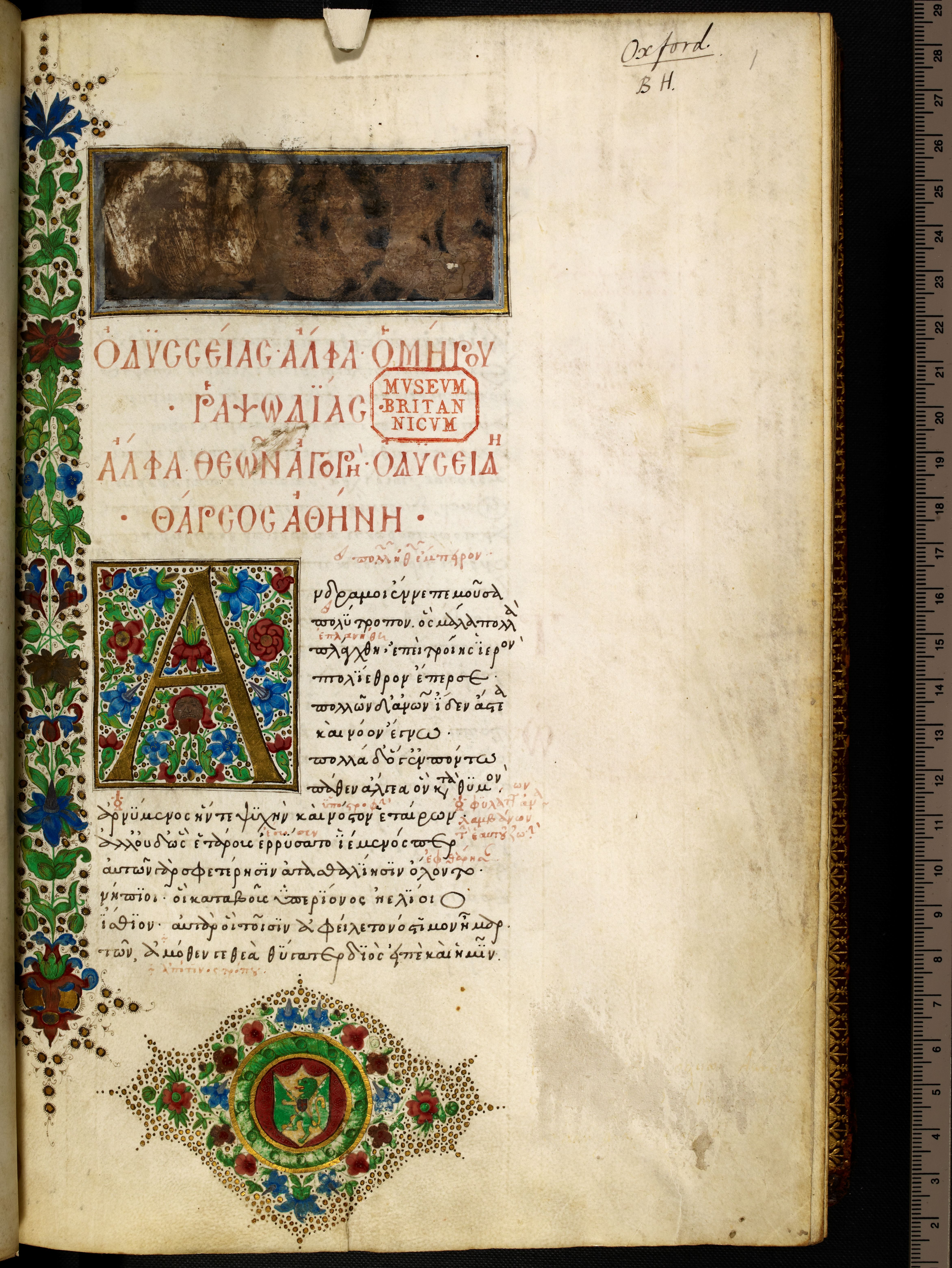 Homer, Odyssey manuscript. Date: 3rd quarter of the 15th century